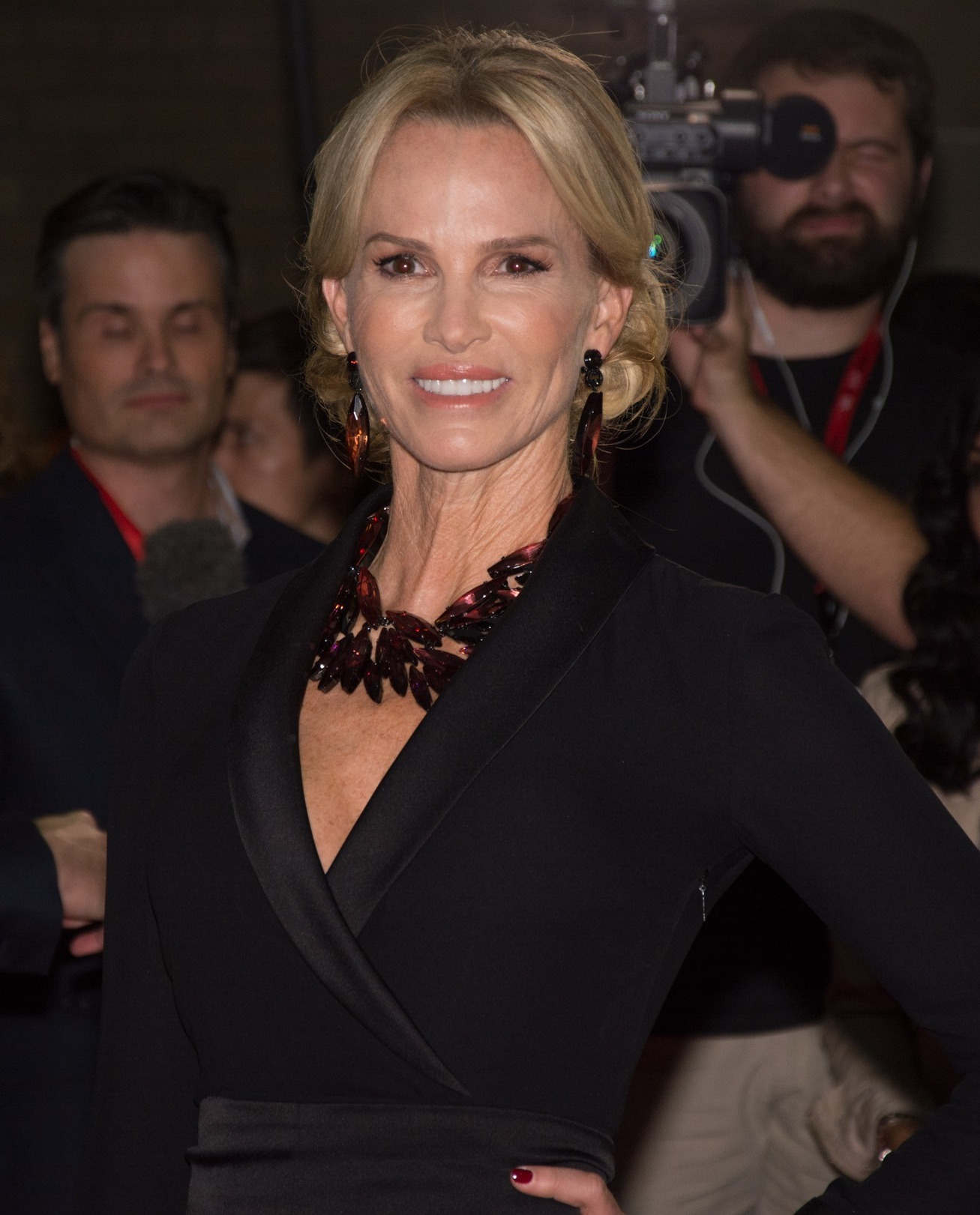 Actress Janet Jones arriving for the Hollywood Foreign Press Association & InStyle's 2014 TIFF Celebration